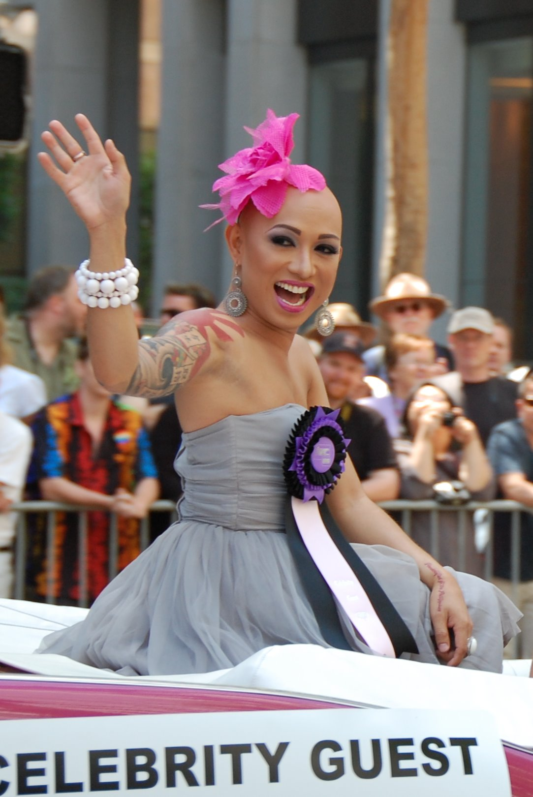 Ongina from RuPaul's Drag Race